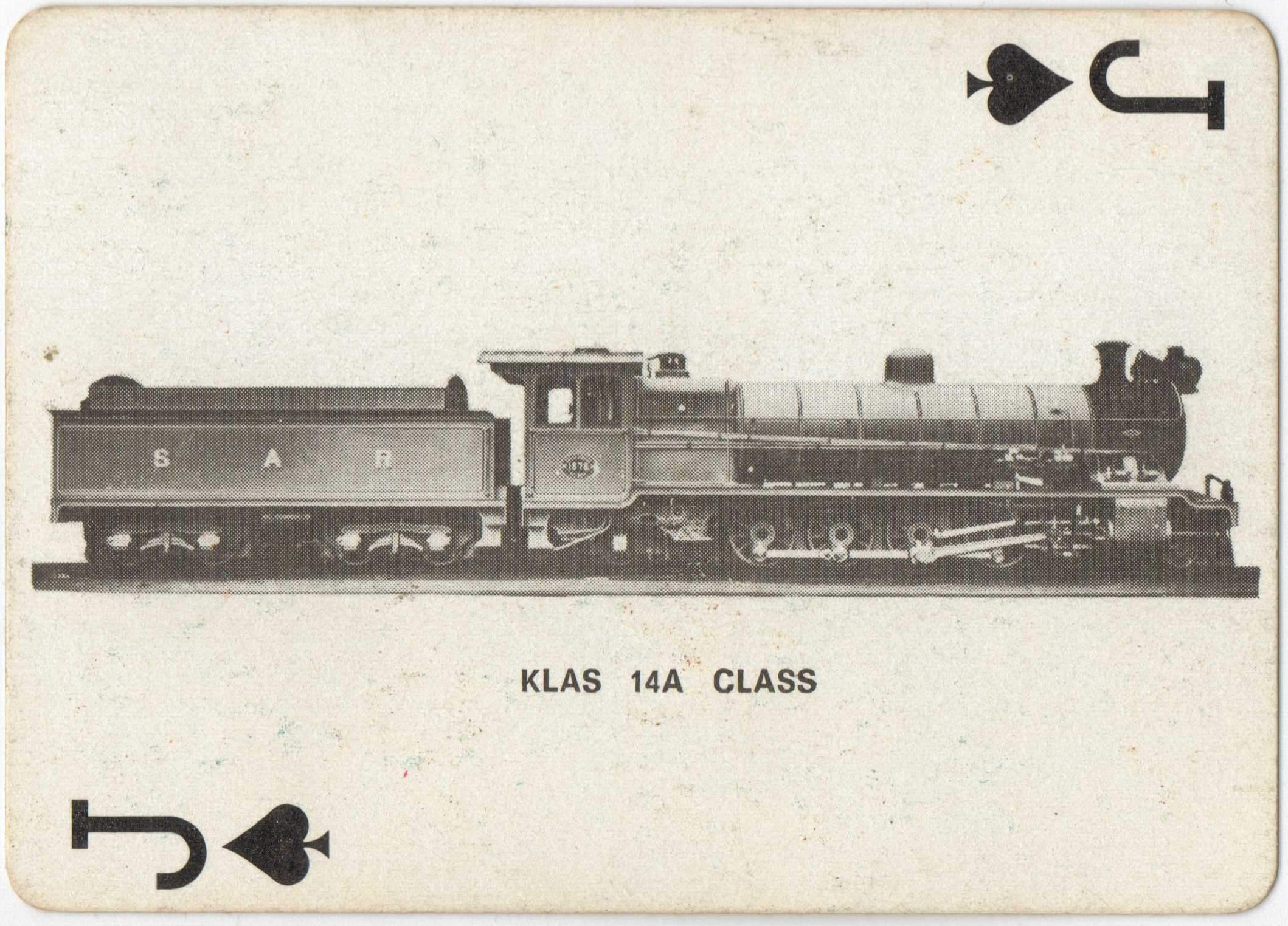 SAR Museum Playing Cards – Spade JackClass 14A 1578 (4-8-2)